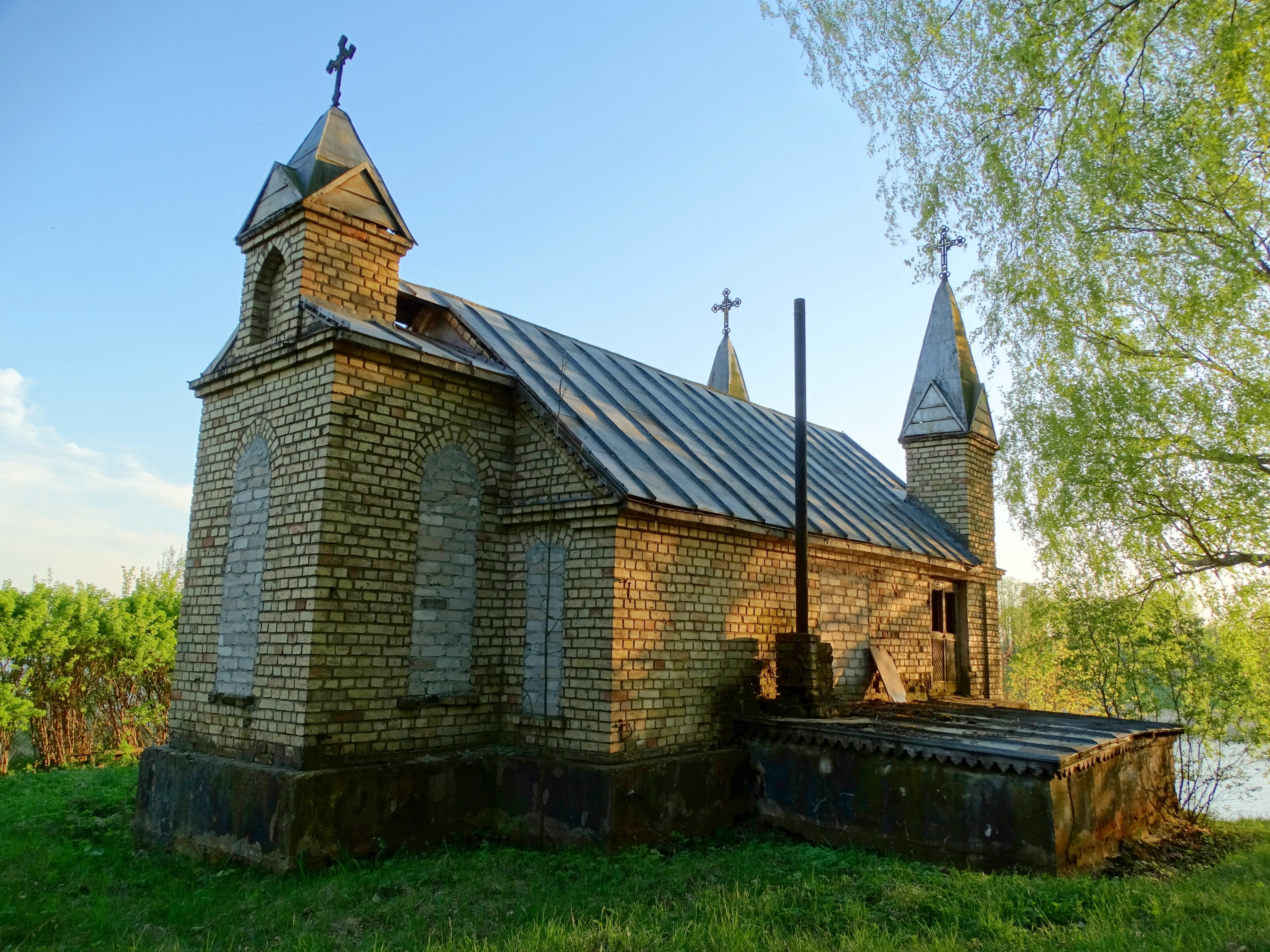 Chapel on Naujaupis hillfort, Kėdainiai District, Lithuania